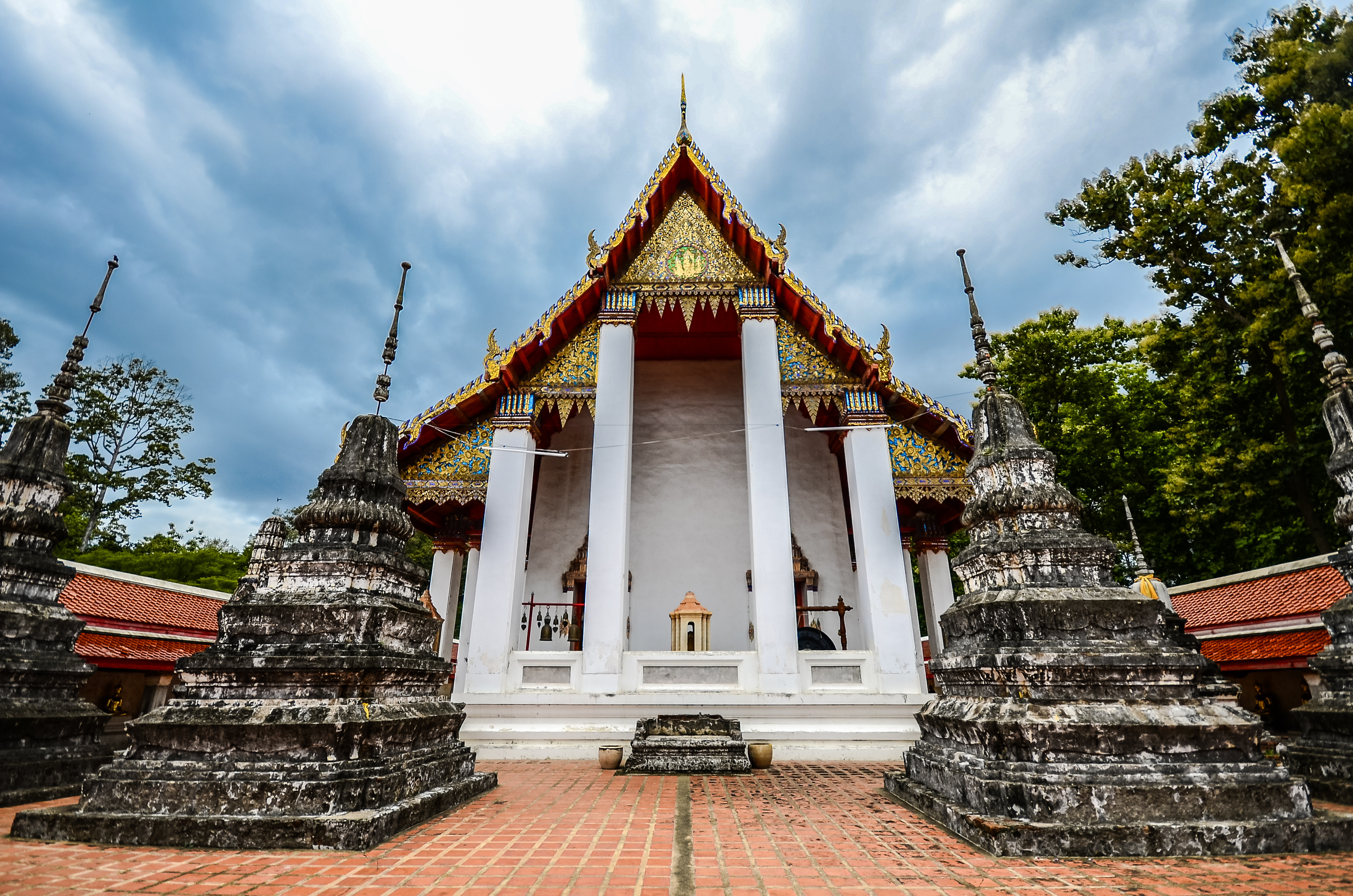 วัดขนอน